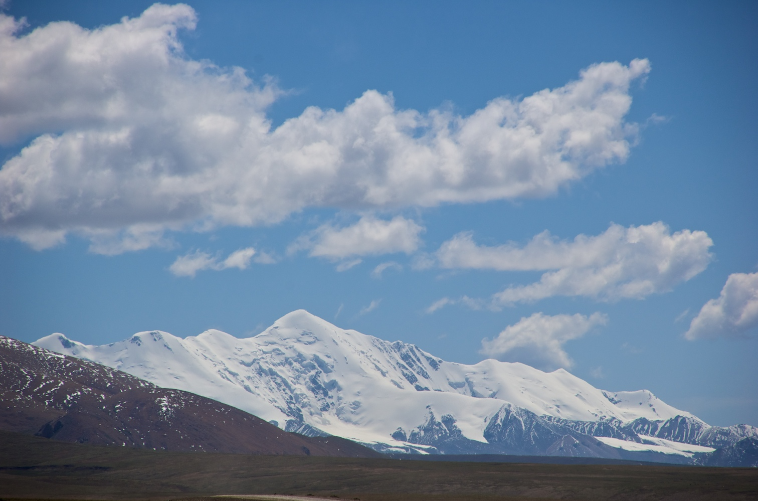 The famous and rather mysterious Amne Machin (Maqen Gangri), the second sacred mountain for tibetans after Mount Kailash, 6.282 m. Qinghai, China